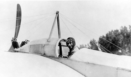 Clyde Cessna inside his first aircraft, "The Comet".